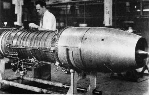 A Westinghouse J30 turbojet engine, which was used to power the U.S. Navy's McDonnell FH-1 Phantom fighter.